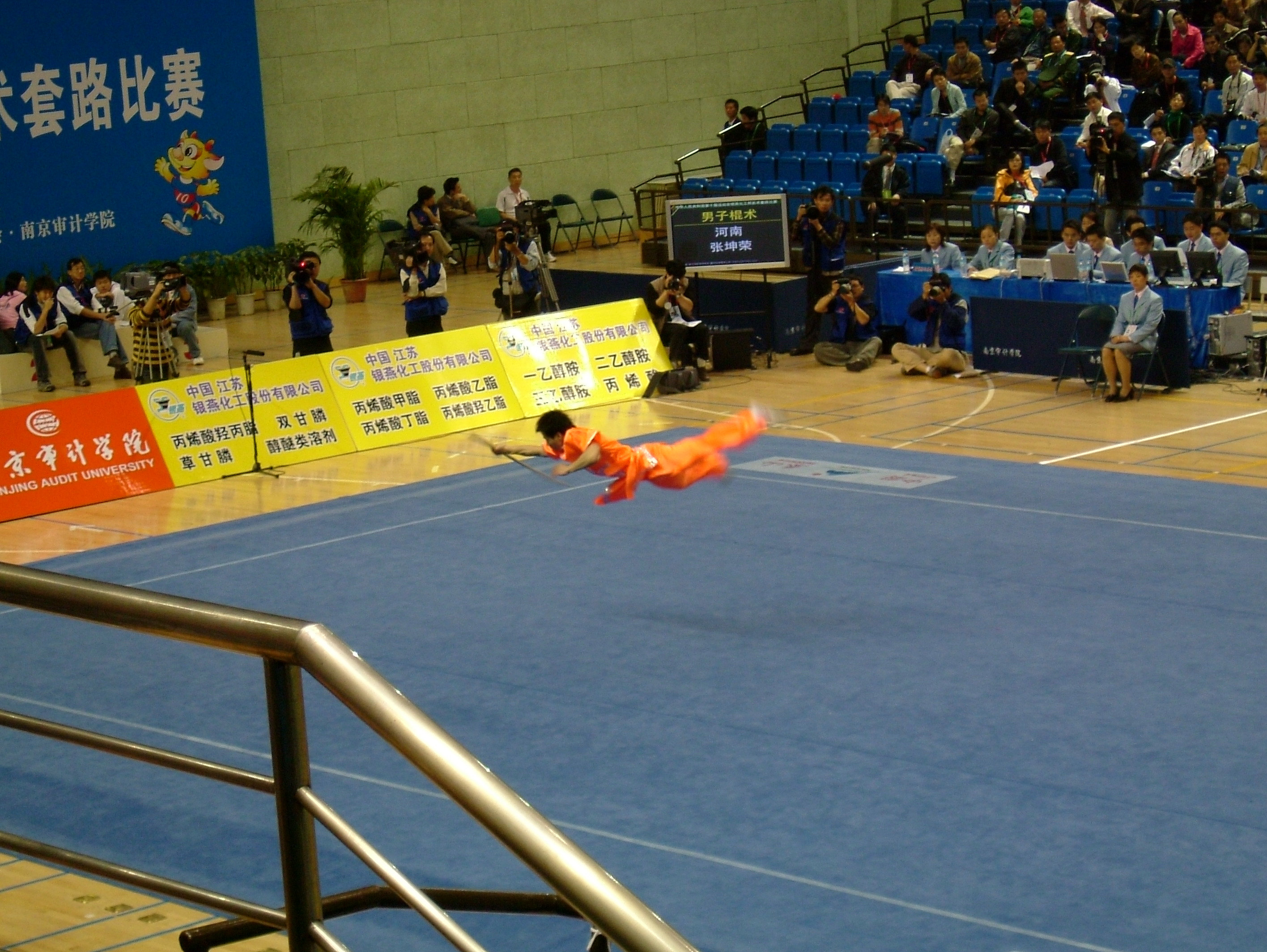 Gun (staff) event at the 10th All China Games.